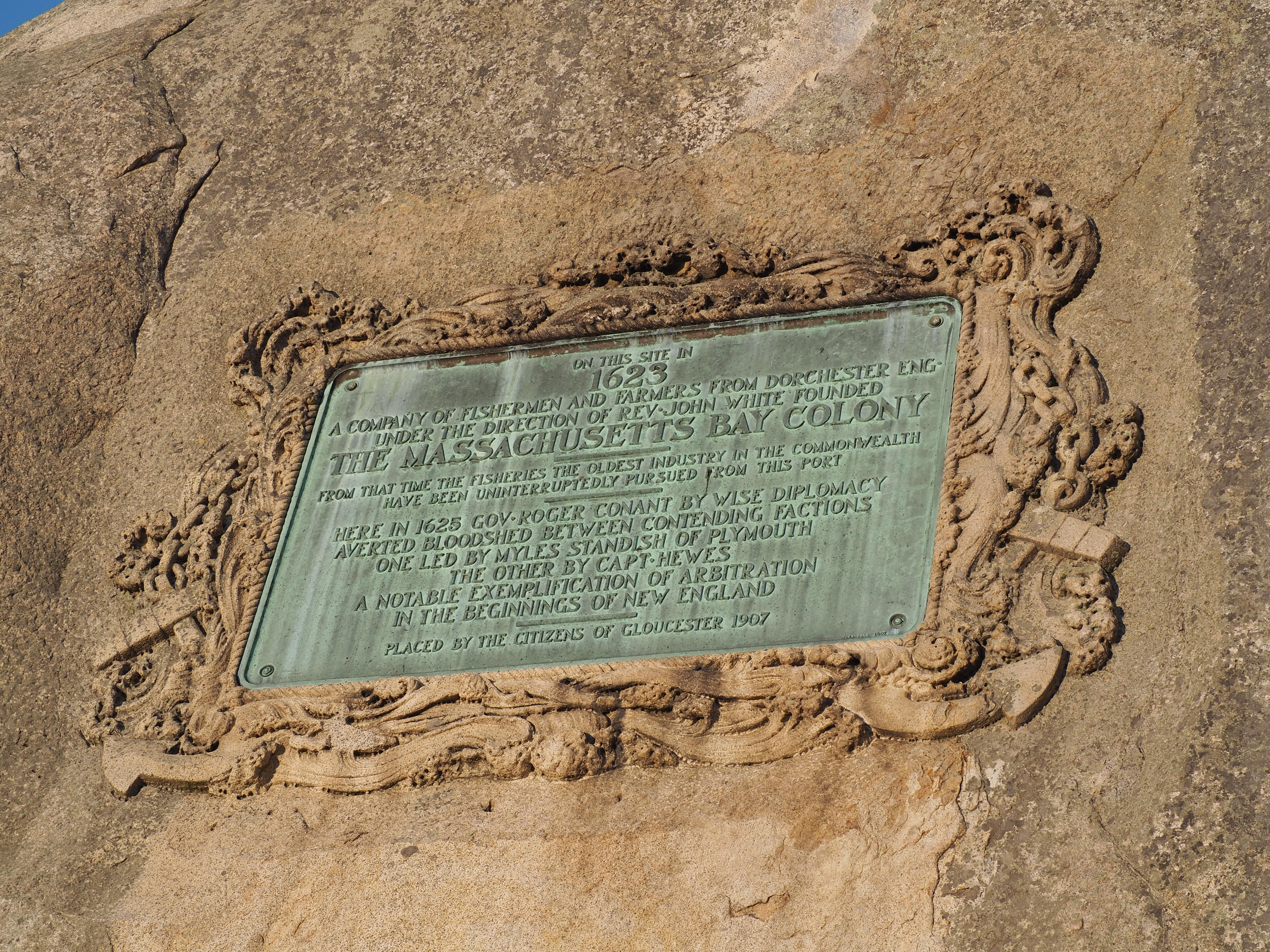 Close up of the plaque on the giant rock at Stage Fort Park